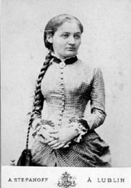 Franciszka Arnsztajnowa (1865 - 1942) - Polish poet, playwright, and translator of Jewish descent.